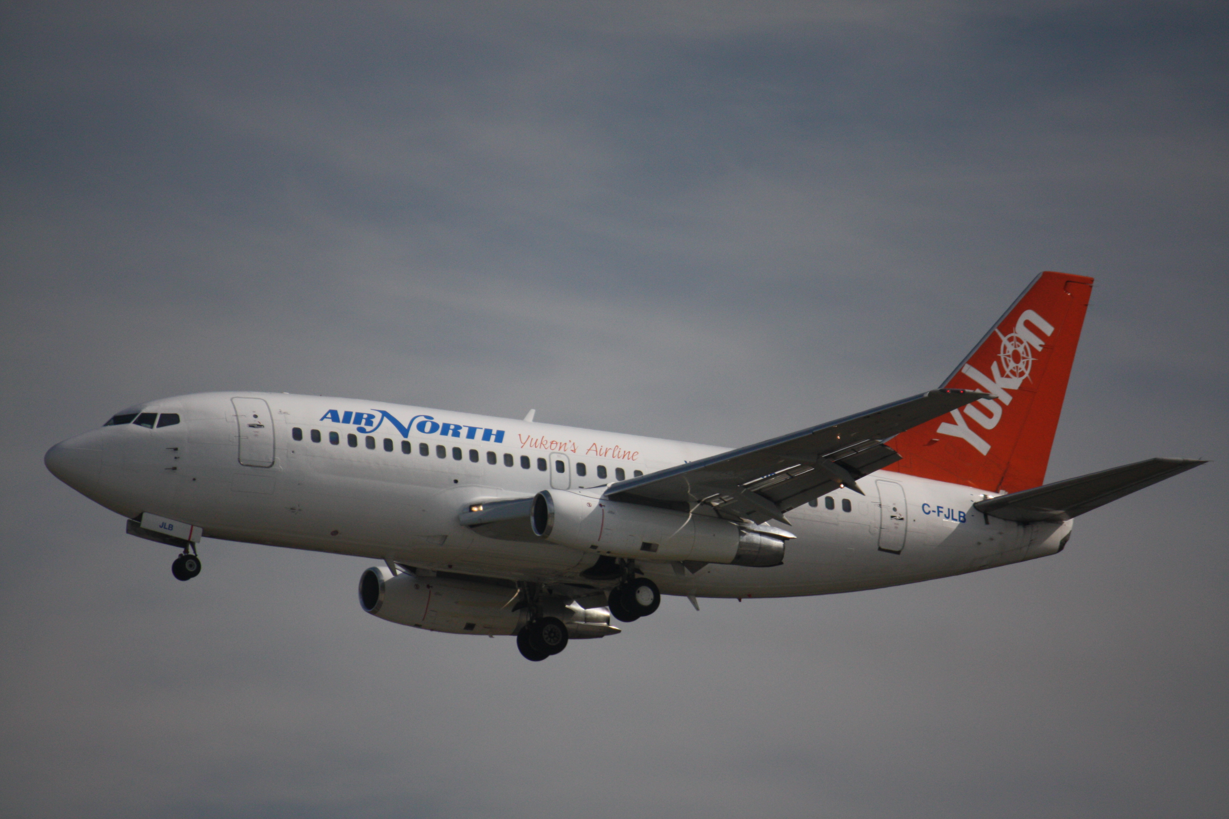 An Air North Boeing 737-201/Adv landing at Vancouver International Airport